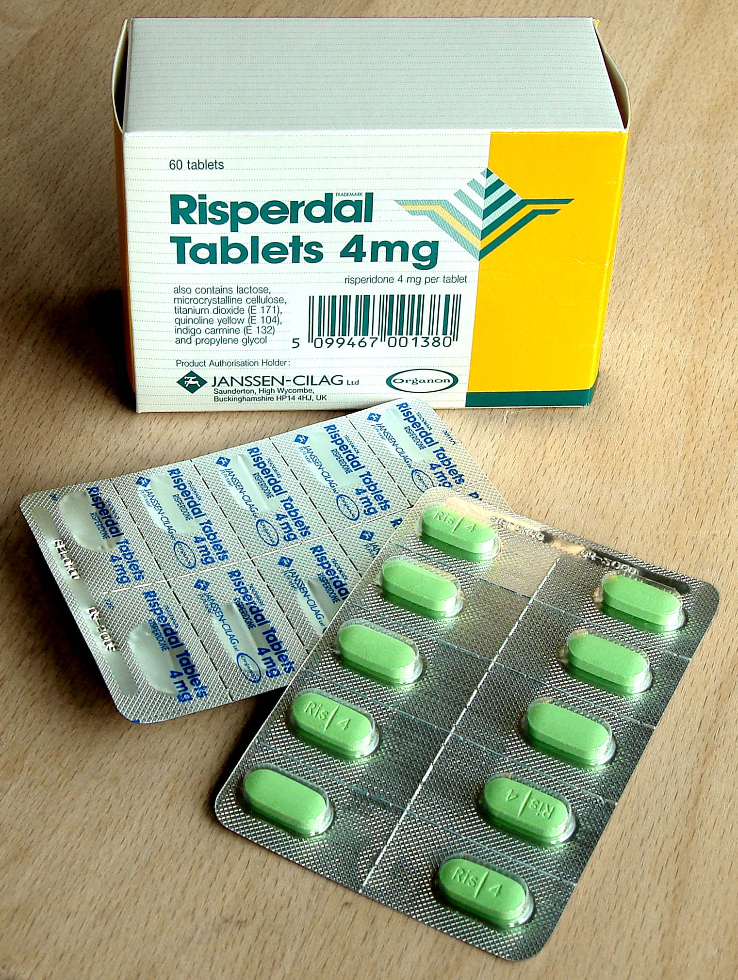 Risperdal (United Kingdom packaging)